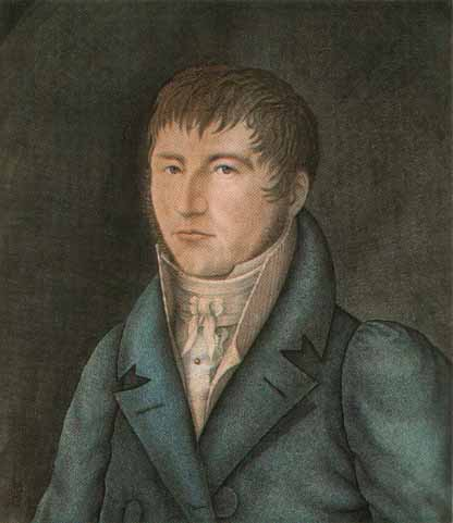 The German painter and teacher Oluf Braren (1787-1839), self-portrait